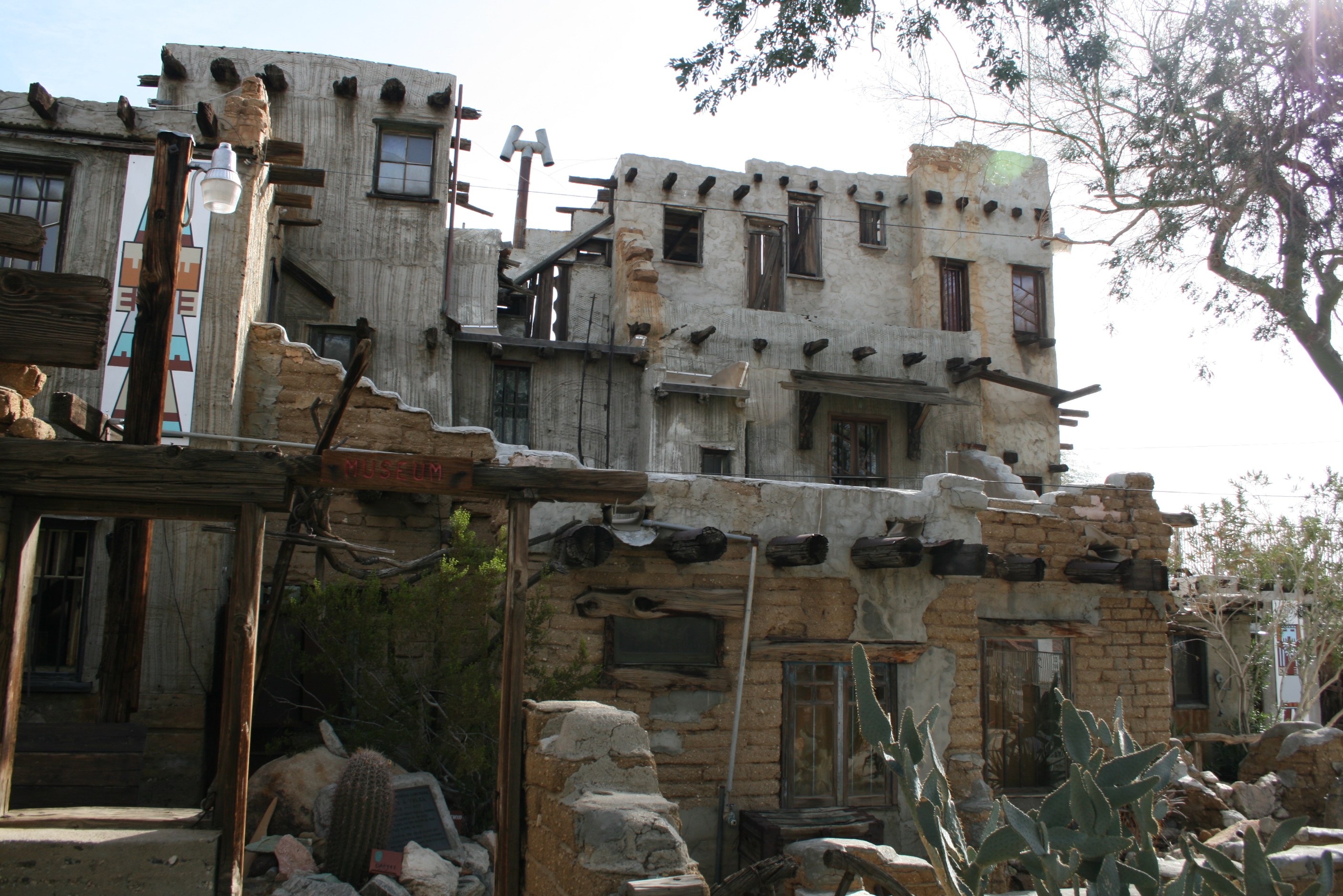 Cablot's Pueblo Museum in Desert Hot Springs, California. The house is a large, Hopi-style pueblo built over a period of 24 years by homesteader Cabot Yerxa.